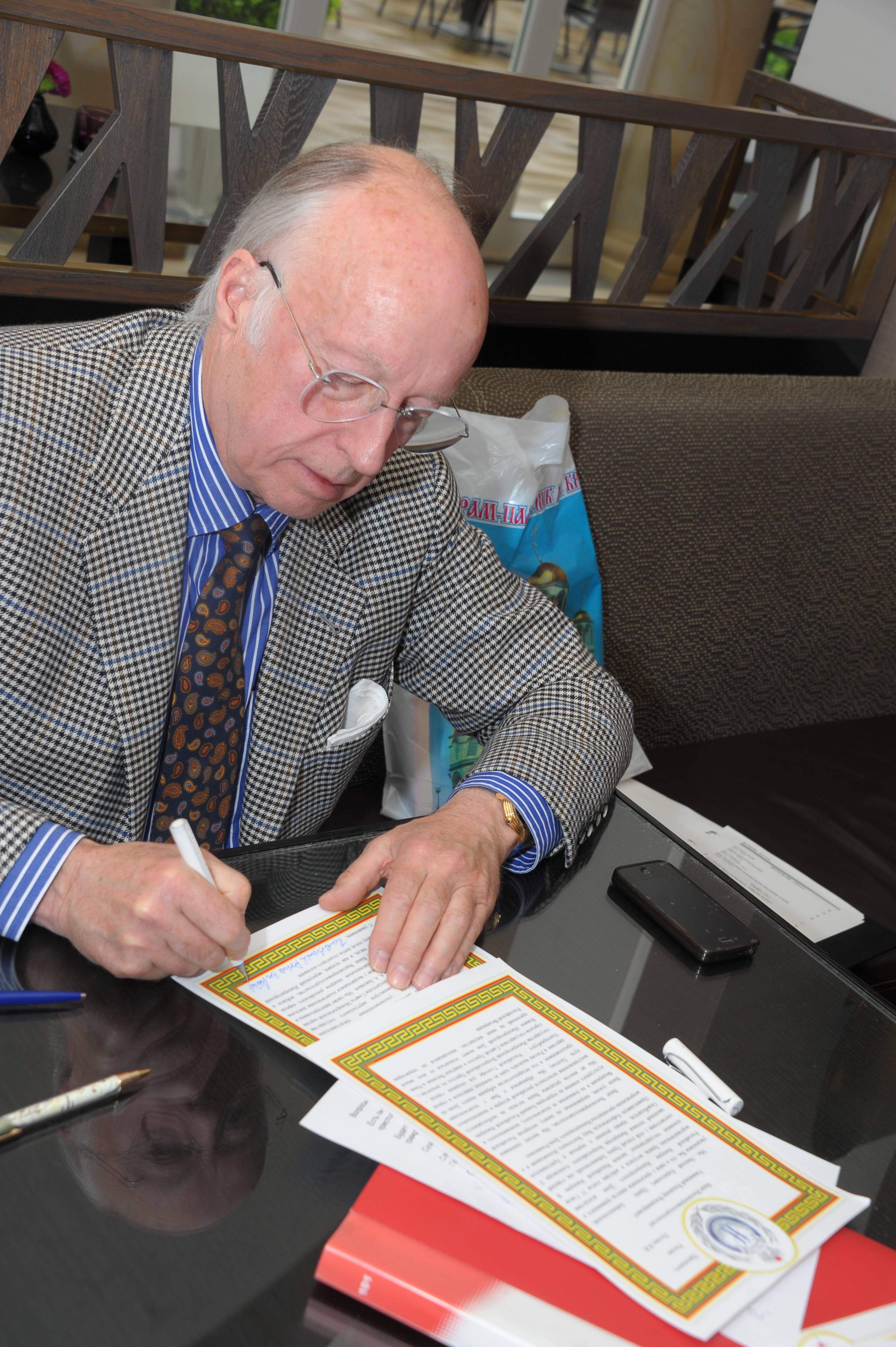 Karl Emich of Leiningen signs an address to Vladimir Putin asking permission to assign a land in Ekaterinburg for creation of the Sovereign State Imperial See.